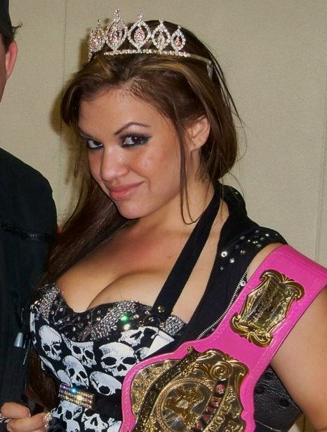 Shaul Guerrero as Queen of FCW and holding the FCW Divas Championship